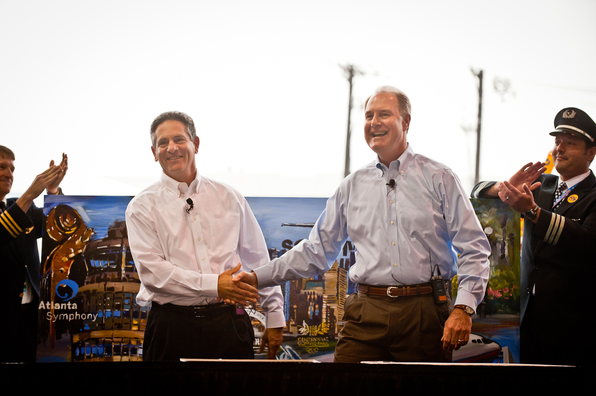 Gary Kelly and Bob Fornaro shake hands to celebrate day one of the AirTran acquisition.